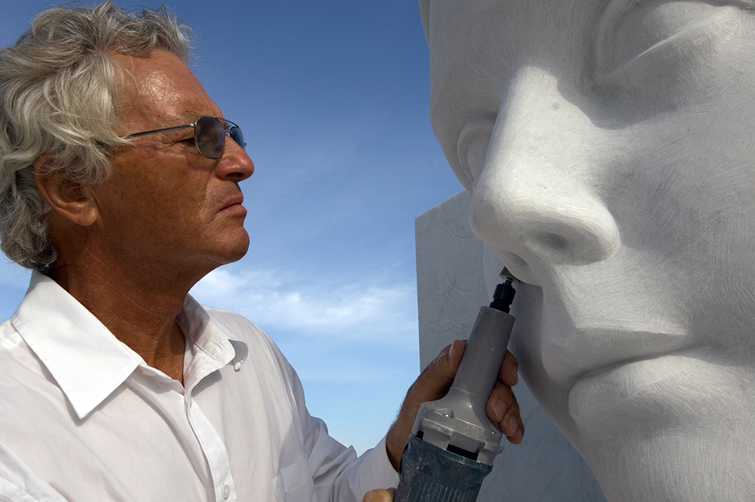 Marton Varo working on the "Annunciation" at Ave Maria, Florida.